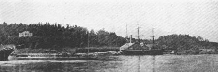 A. B. Bull's shipyard Fagerheim at Kaldnes in 1872